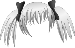 Silver manga-style pigtails